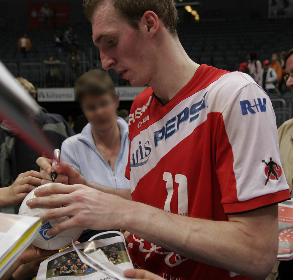 Holger Glandorf, the German handball player. Picture taken after the game VfL Gummersbach vers. HSG Nordhorn in Cologne (Kölnarena)